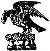 Crest of Lathom of Lathom, Lancashire: An eagle wings extended or preying on a child proper swaddled gules in a cradle laced or. (Montague-Smith, P.W. (ed.), Debrett's Peerage, Baronetage, Knightage and Companionage, Kelly's Directories Ltd, Kingston-upon-Thames, 1968, p.344, Stanley, Earl of Derby). Sir John Stanley(c. 1350–1414) of Lathom, near Ormskirk in Lancashire, Lord Lieutenant of Ireland and titular King of Mann, married Isabel Lathom, daughter and heiress of Sir Thomas Lathom of Lathom in Lancashire, a great landowner in south-west Lancashire. The Stanley family was thus heir of the Lathoms and adopted the Lathom crest, to which is attached an ancient myth, see Collectanea Topographica et Genealogica, "On the Stanley Legend and Family of Lathom"[1]. The legend has many versions, one (given by Thomas Stanley (died circa 1568), Bishop of Sodor and Man) being that the "Lord of Lathom was issueless and aged "fowerscore" adopted an infant "swaddled and clad in a mantle of redd," which an eagle brings unhurt to her nest in Terlestowe wood, and which he names Oskell, and makes heir of Lathom, where he becomes the father of Isabel Stanley, stolen away in the first instance by her knight, and afterwards forgiven by Sir Oskell". (Collectanea Topographica et Genealogica)